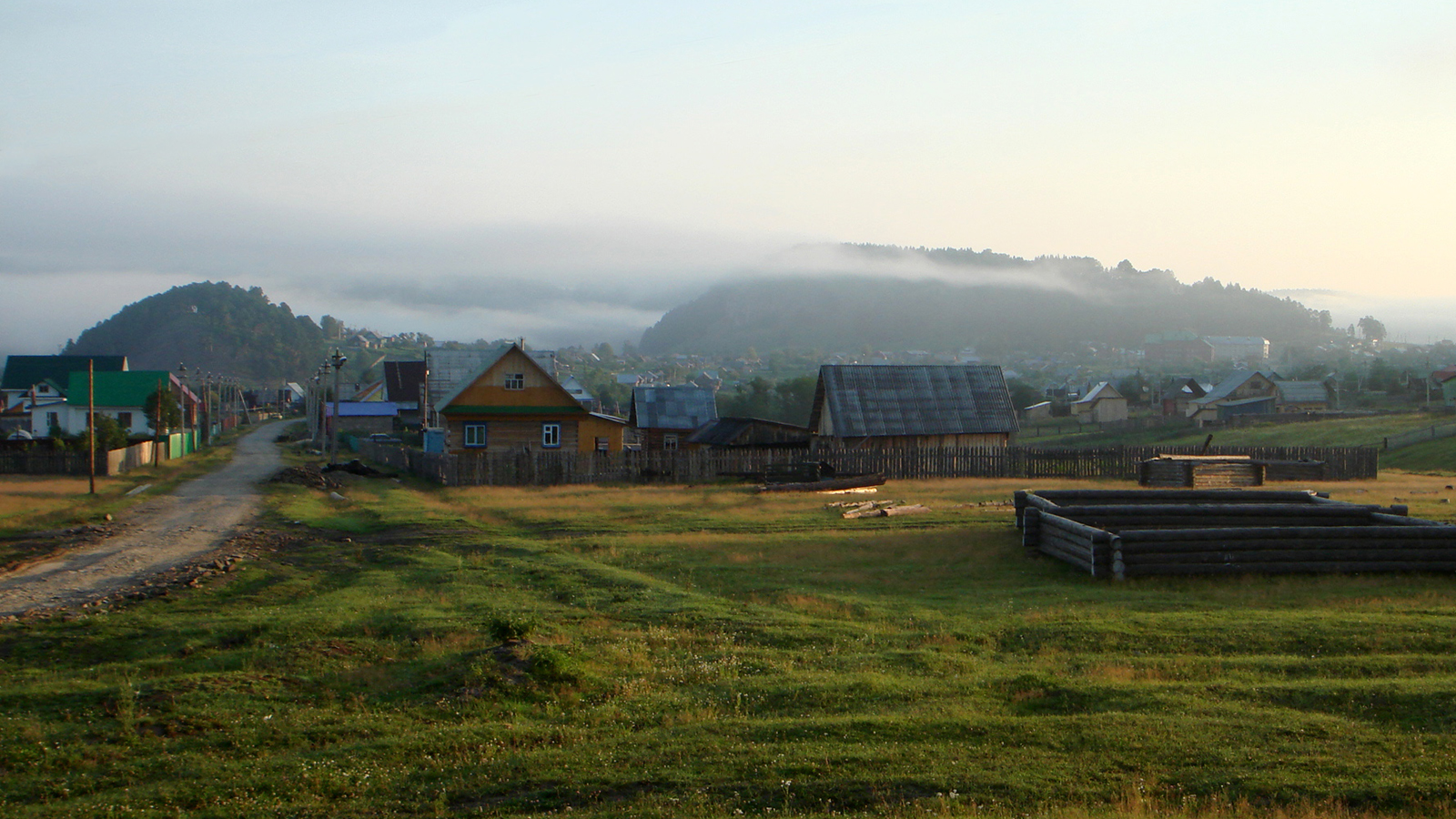 Inzer, Bashkortostan, Russia